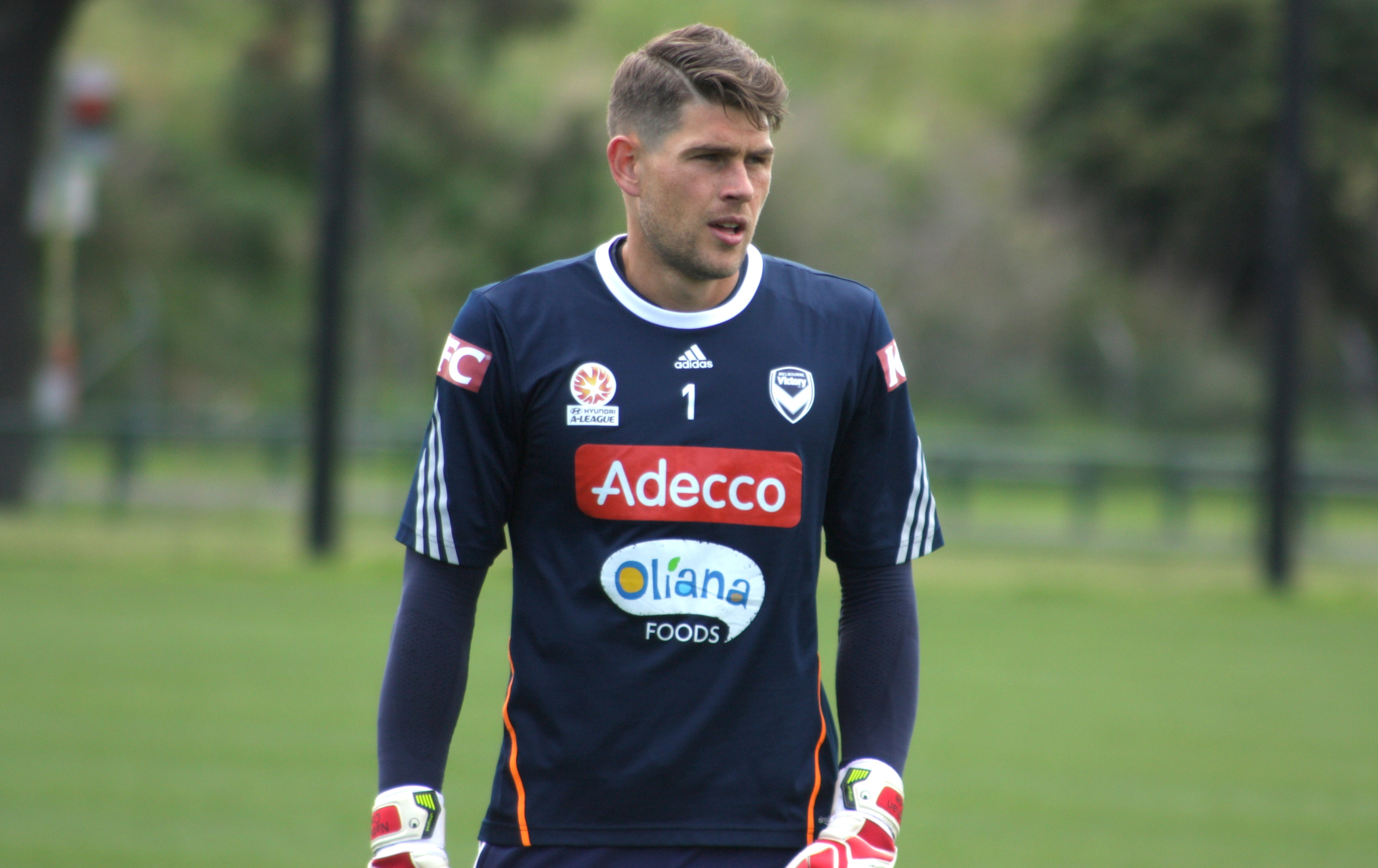 Nathan Coe training for Melbourne Victory at Gosches Paddock